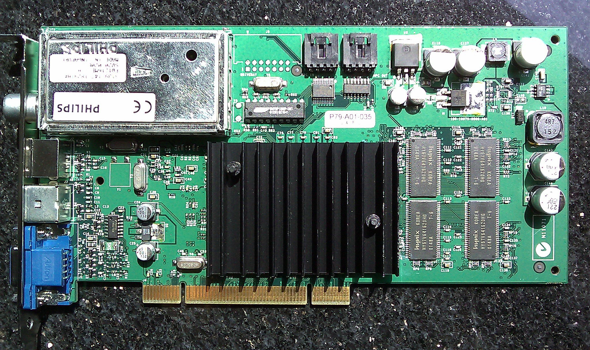 NVIDIA engineering sample graphic card